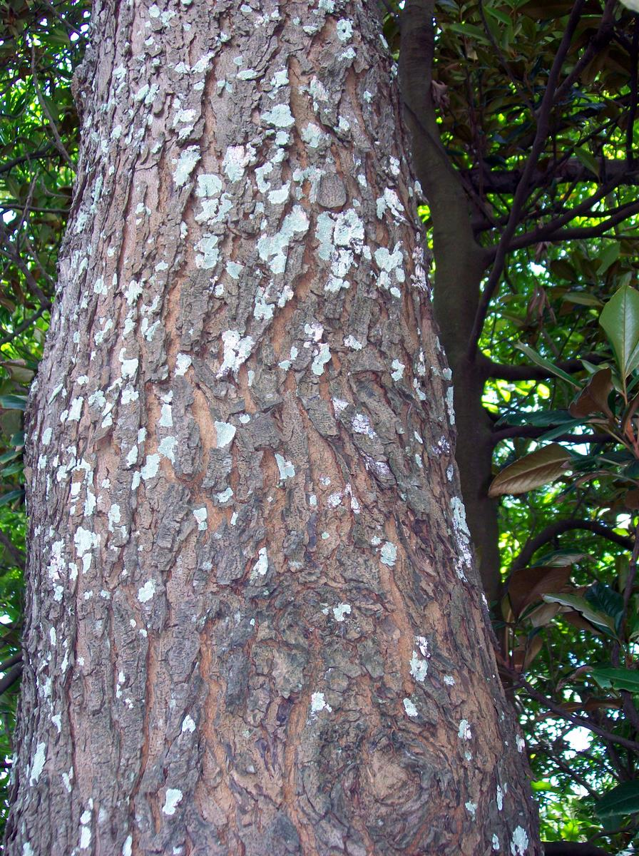 Dysoxylum mollissimum, Red Bean - Royal Botanic Gardens, Sydney, Australia